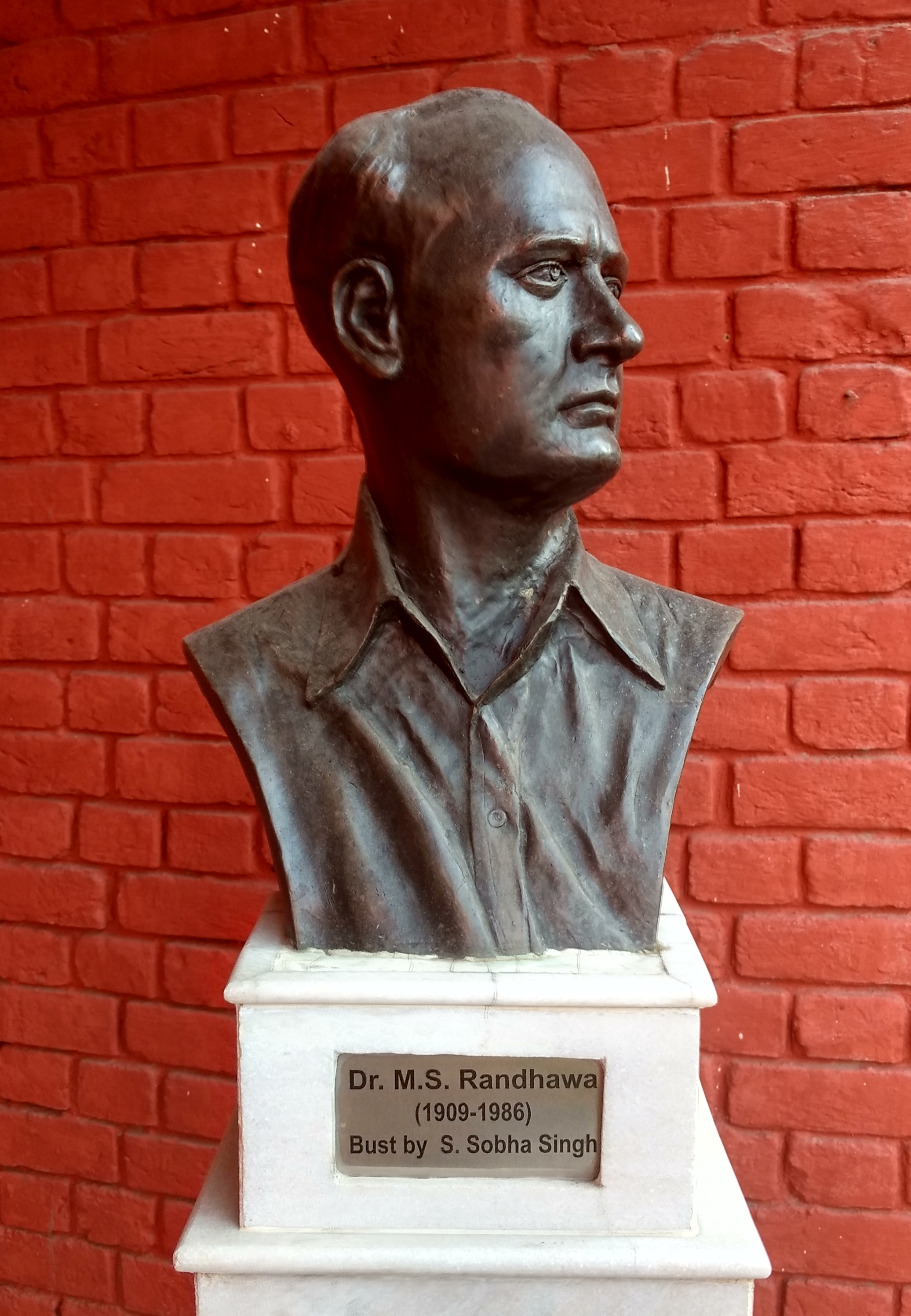 Bust of M.S. Randhawa in Chandigarh